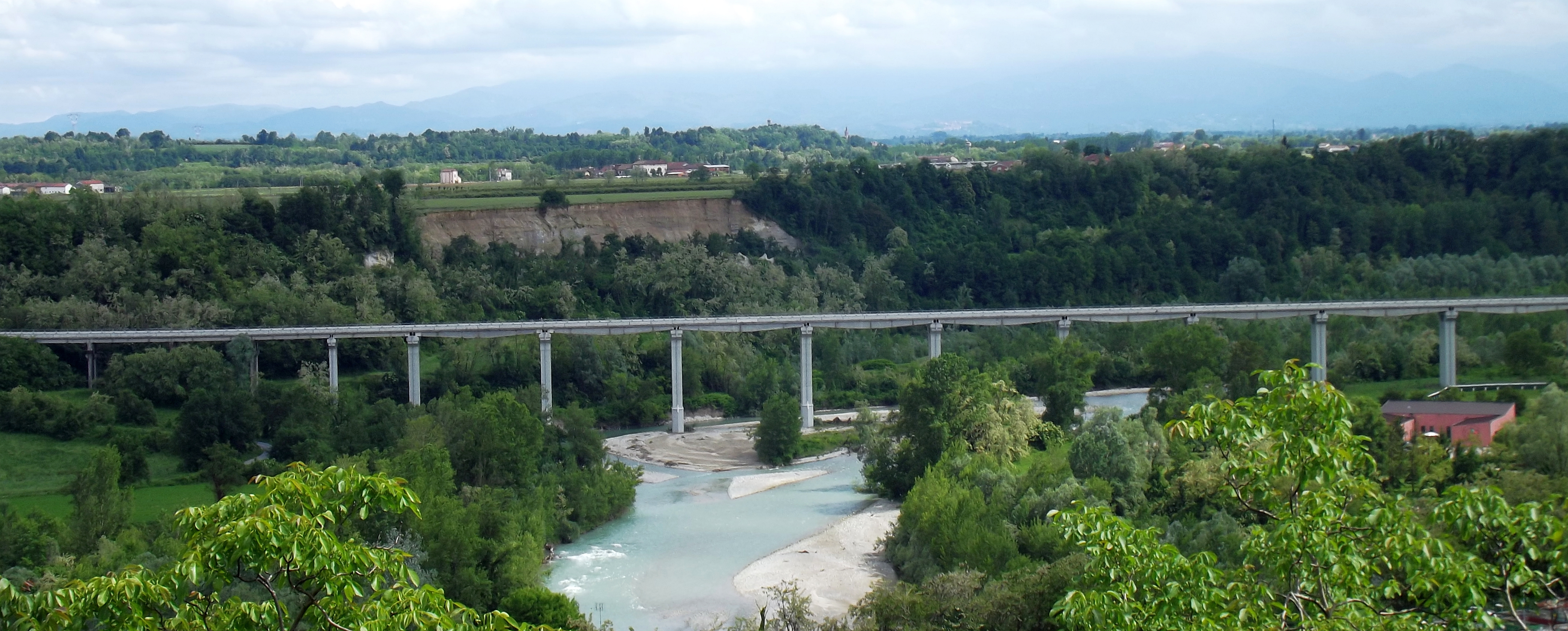 A6 connection for Fossano: bridge on Stura di Demonte seen from Fossano (CN, Italy)